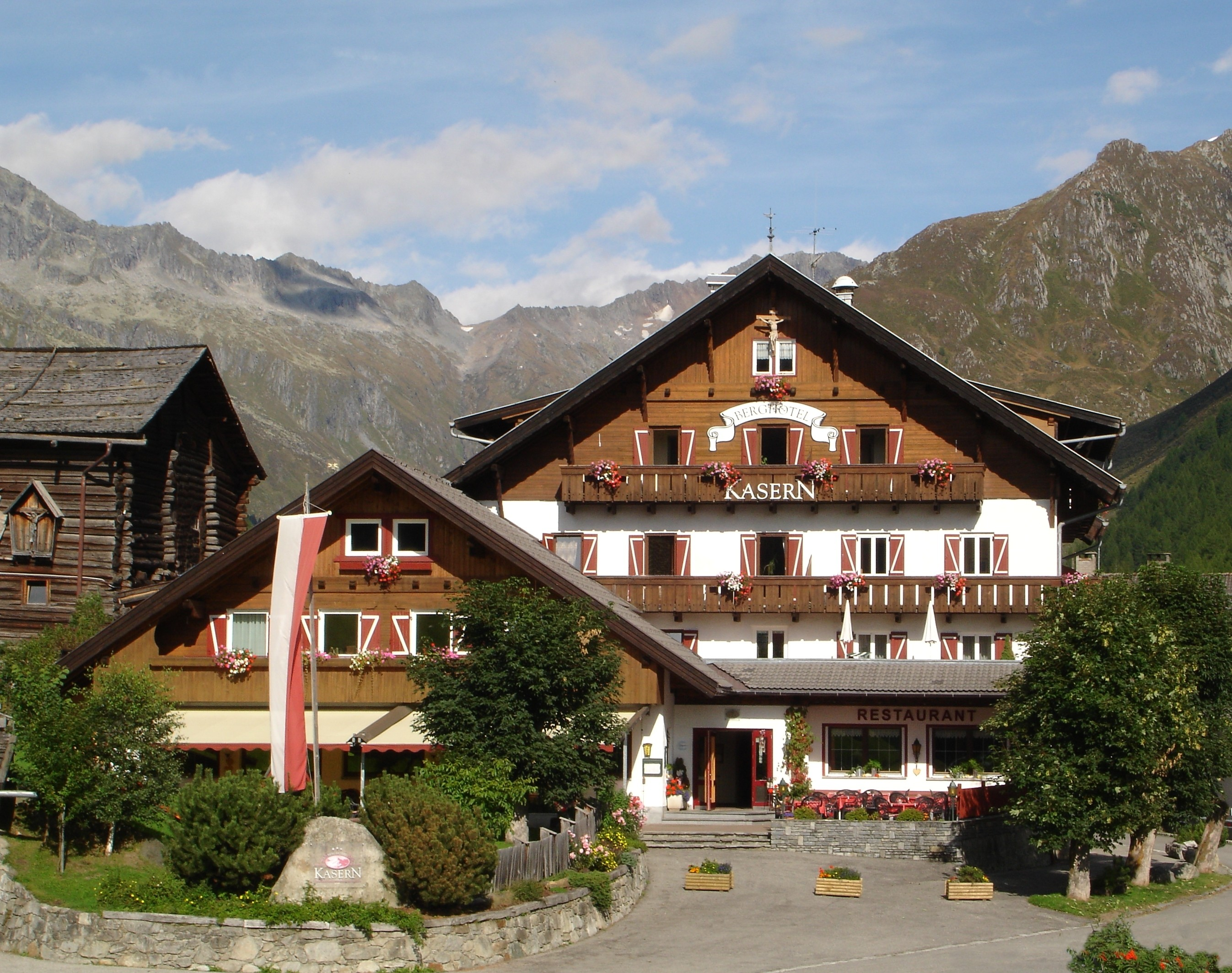 Berghotel Kasern in 2011